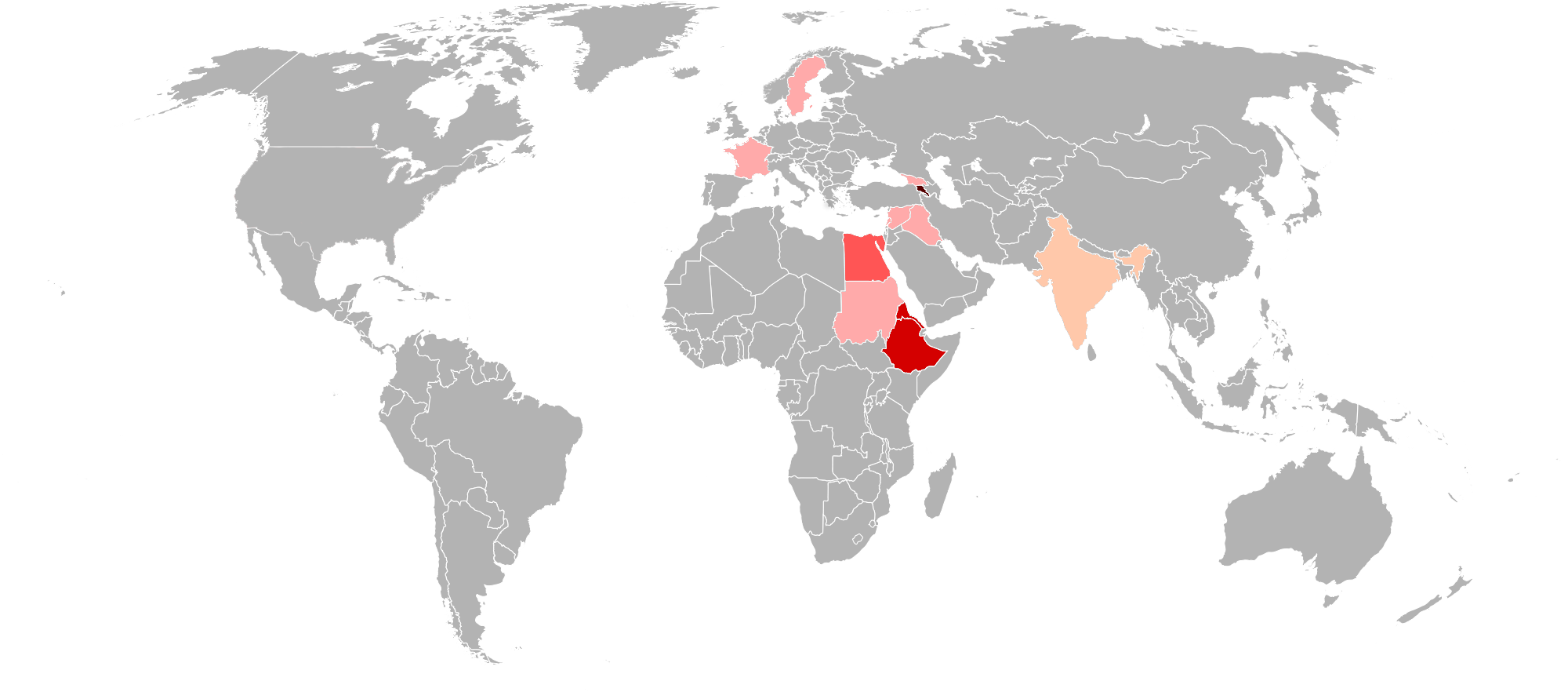 Distribution of Oriental Orthodox Christians in the world by country Main religion (more than 75%) Main religion (50% - 75%) Important minority religion (20% - 50%) Important minority religion (5% - 20%) Minority religion (1% - 5%) Tiny minority religion (below 1%), but has local autocephaly